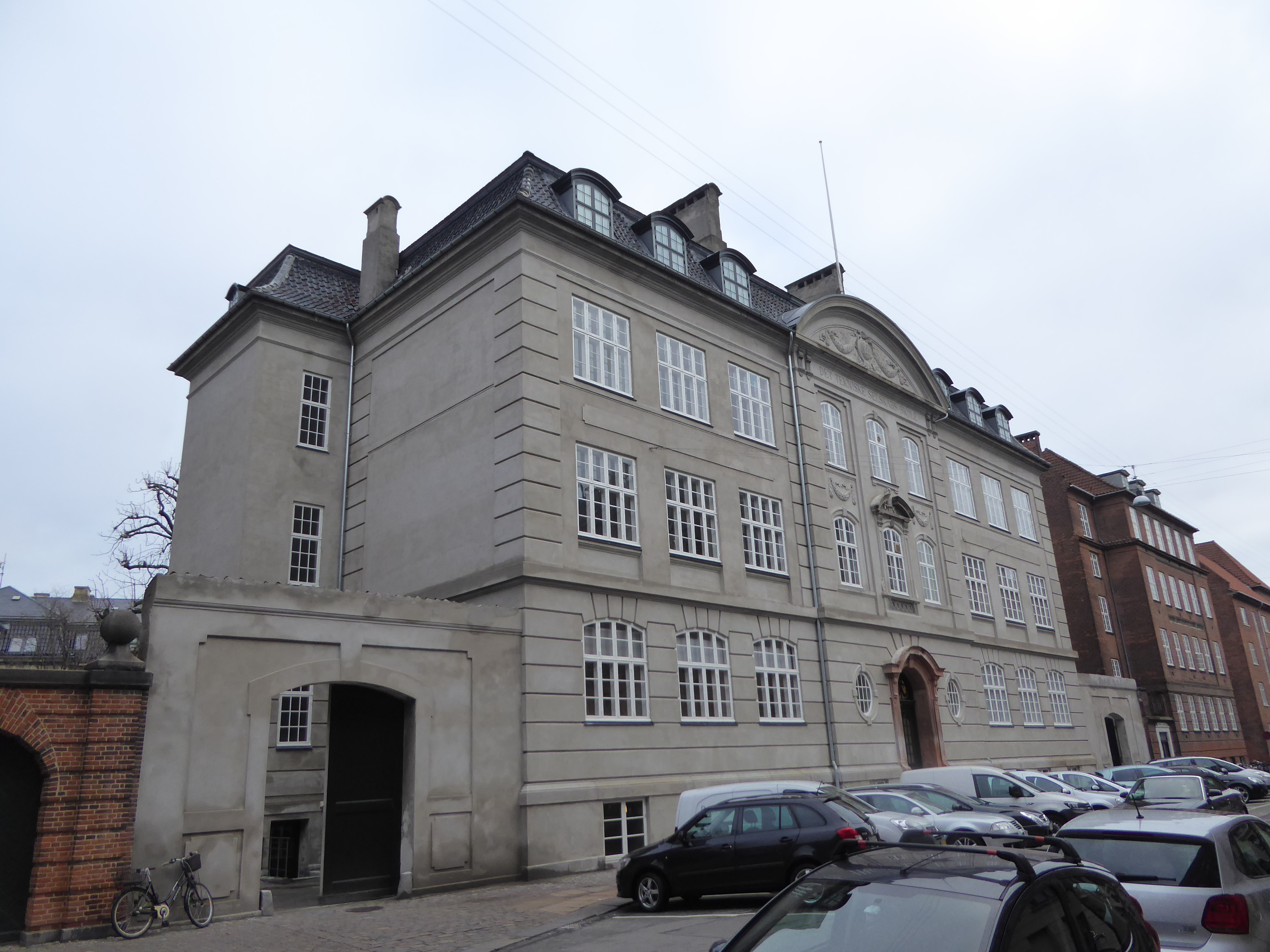 Det Tekniske Selskabs Skole, now a branch of the vocational university Københavns Erhvervsakademi, at Prinsesse Charlottes Gade in Nørrebro in Copenhagen.